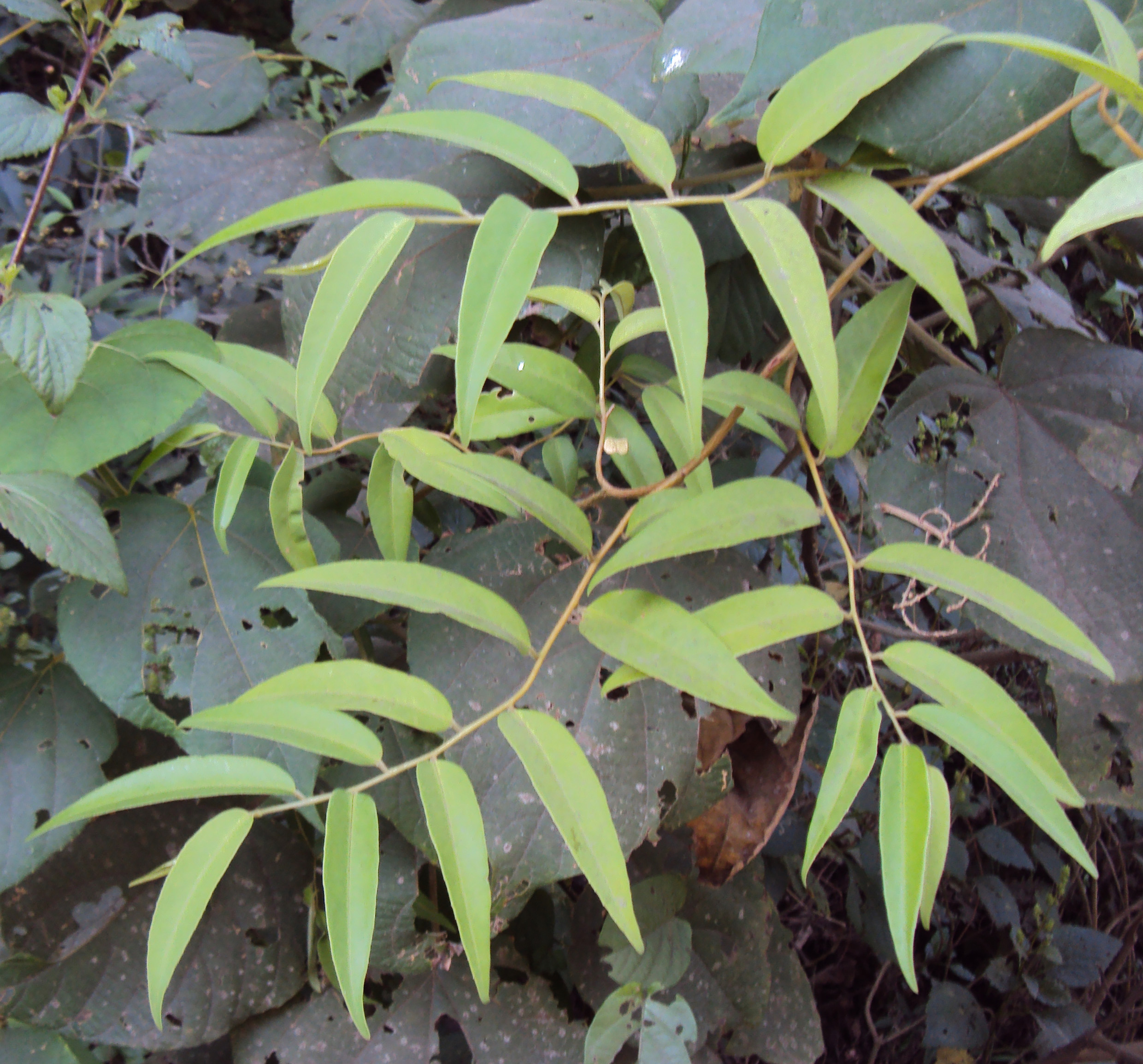 Embelia ribes